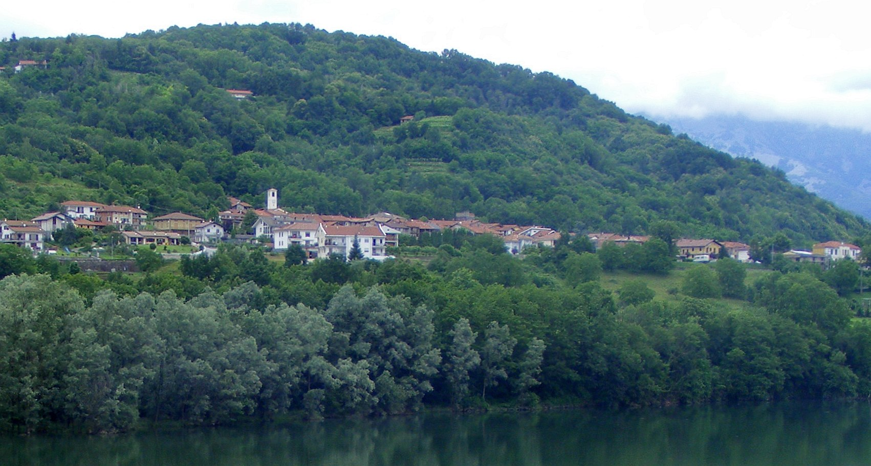 Vidracco (TO, Italy): panorama from Gurzia lake's shore